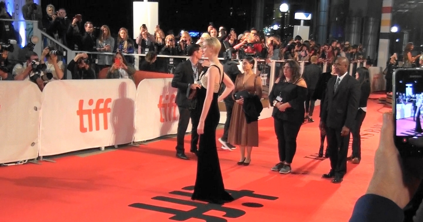 Very tall actress Elizabeth Debicki wearing a beautiful, long dress to match her tall body at 2018 Toronto Inernational Film Festival.